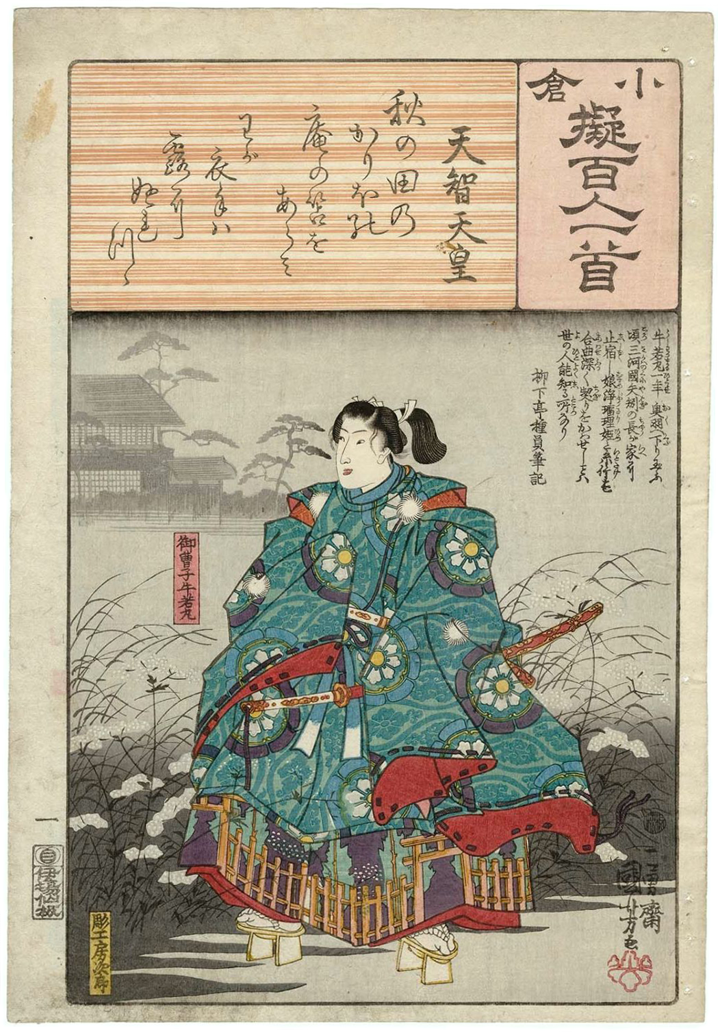 Poem by Tenchi Tennô: Onzôshi Ushiwakamaru, from the series Ogura Imitations of One Hundred Poems by One Hundred Poets (Ogura nazorae hyakunin isshu). Woodblock print (nishiki-e). The Poem says: "Aki no ta no/ kariho no io no/ toma o arami/ waga koromode wa/ tsuyu ni nuretsutsu."